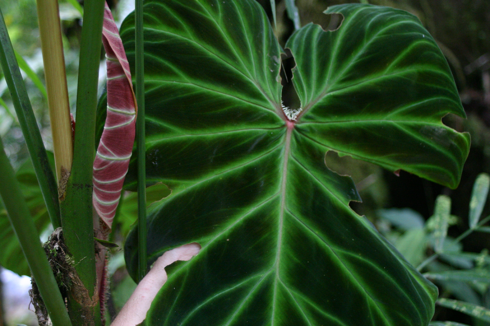 Found growing in the Peñas Blancas valley east of Monteverde, Costa Rica.